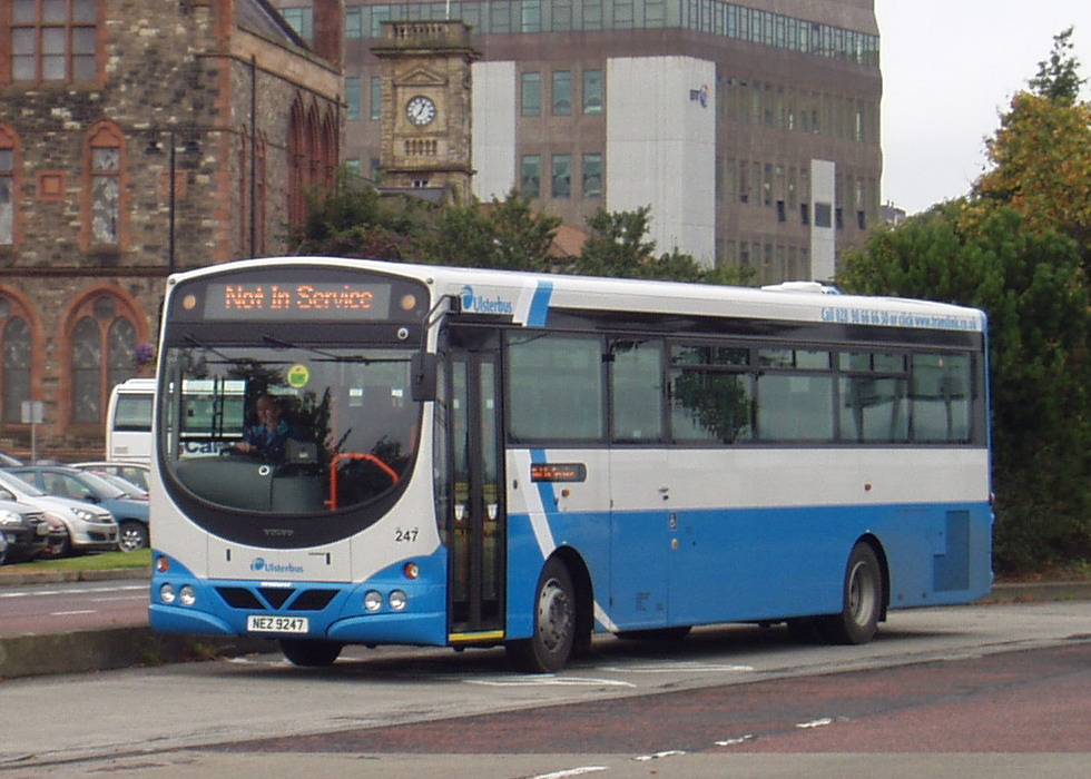 Ulsterbus bus 247 (reg. NEZ 9247) in Derry.